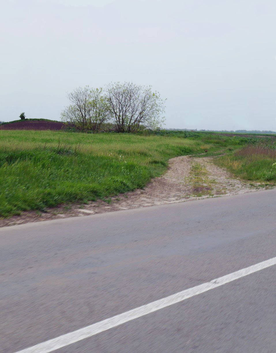 Roads, old and new, to ancient kurgan mound near Mokrin, Serbia [BAN055]